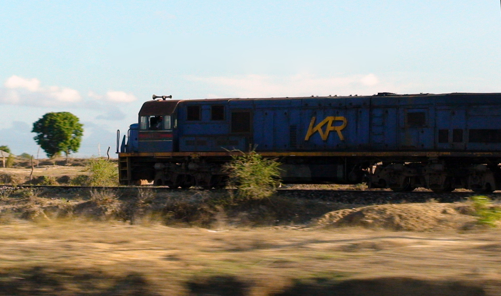 Kenya Railways locomotive hauling cargo which I saw when coming back from Tsavo.